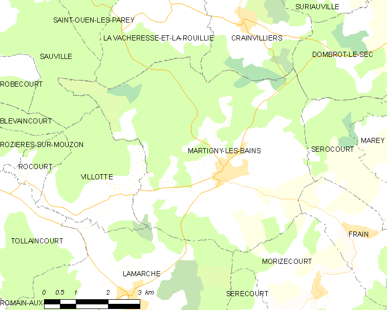 Map of French municipality Martigny-les-Bains